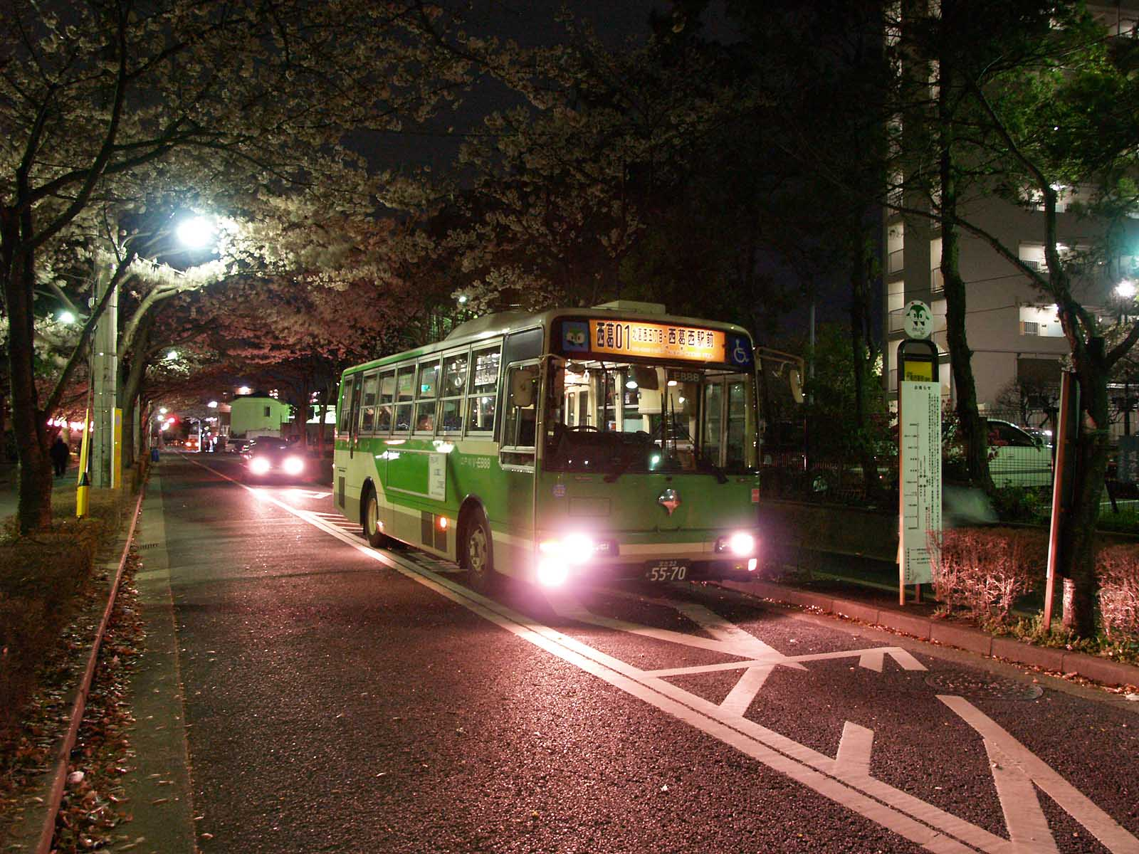 Toei Bus "Nishikatsu 01" Route, at night of Ukita Sakura Park. Model: Mitsubishi Fuso Aero Midi KC-MK219J License plate: TKA22 KA5570 Place: Ukita Sakura Park, Kita-Kasai, Edogawa Ward, Tokyo Japan